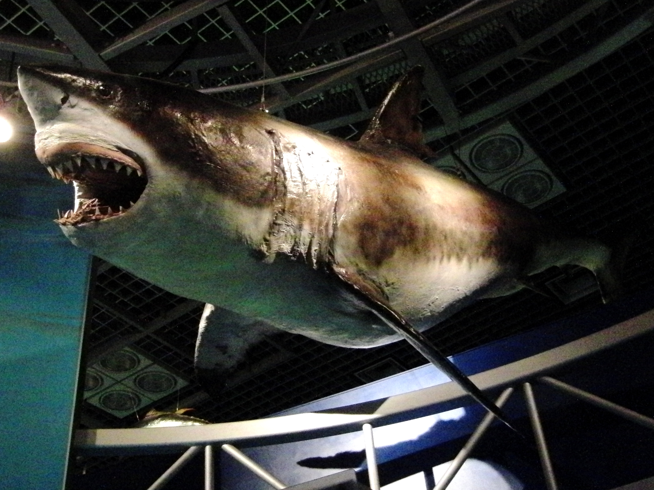 Stuffed specimen of Great white shark (Carcharodon carcharias). Exhibit in the National Museum of Nature and Science, Tokyo, Japan.